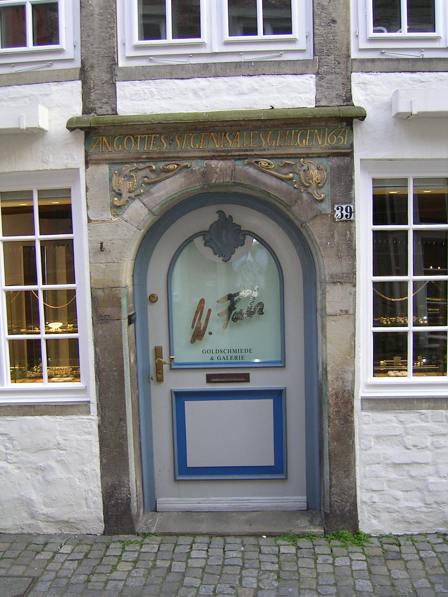 Houses from the 15th and 16th centuries along the narrow alleys in Bremen’s oldest surviving quarter